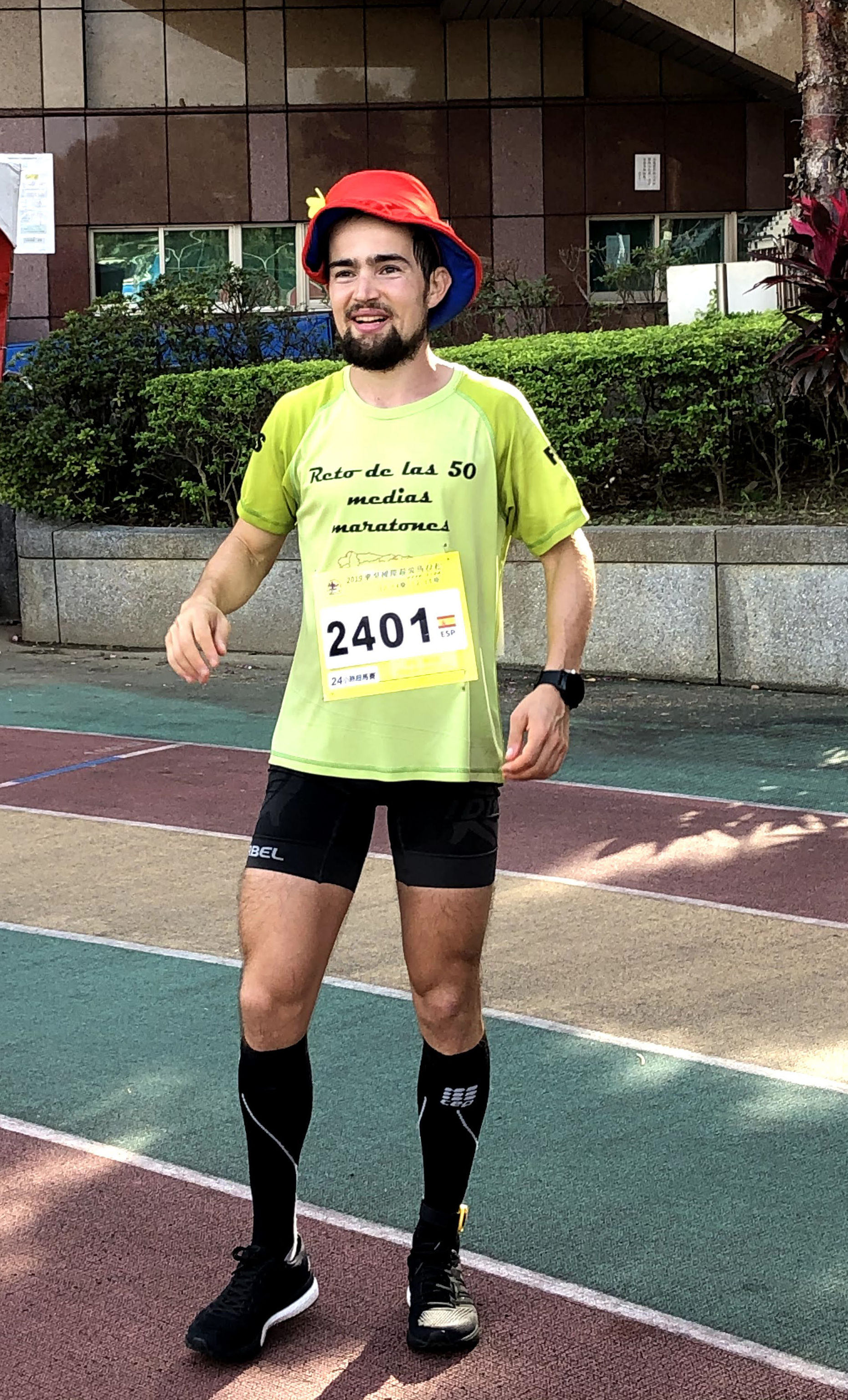 Ultra runner Iván Penalba Sánchez poses just after XX Soochow Univerisity 24 Hours Ultra-Marathon where he gets a new Spanish 24 Hours record of 274,332 kilometres